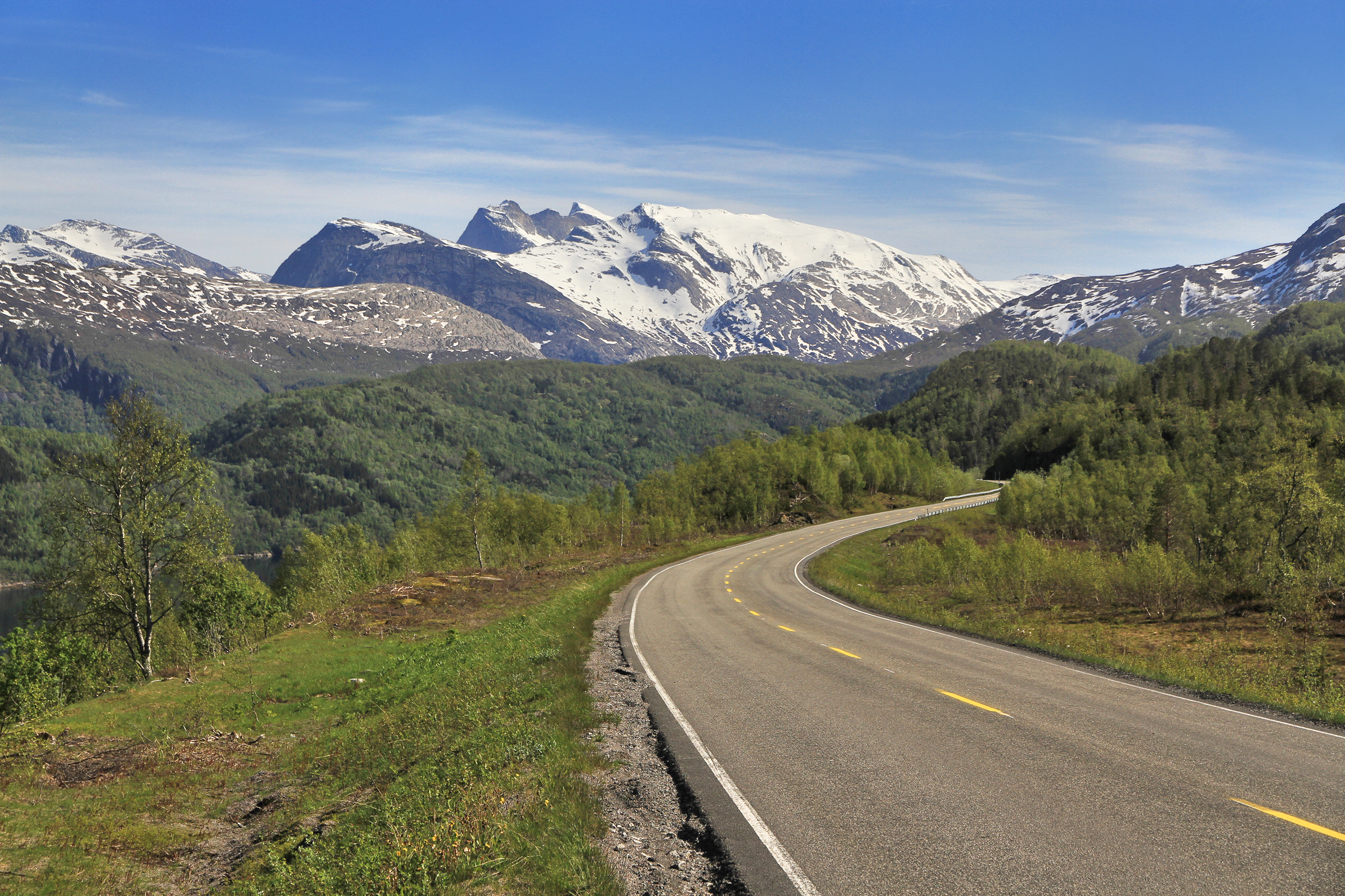 E6 road at Leirfjorden in Sørfold, Nordland, Norway in 2011 June. Kviturfjellet and part of Veikdalsisen in the background.